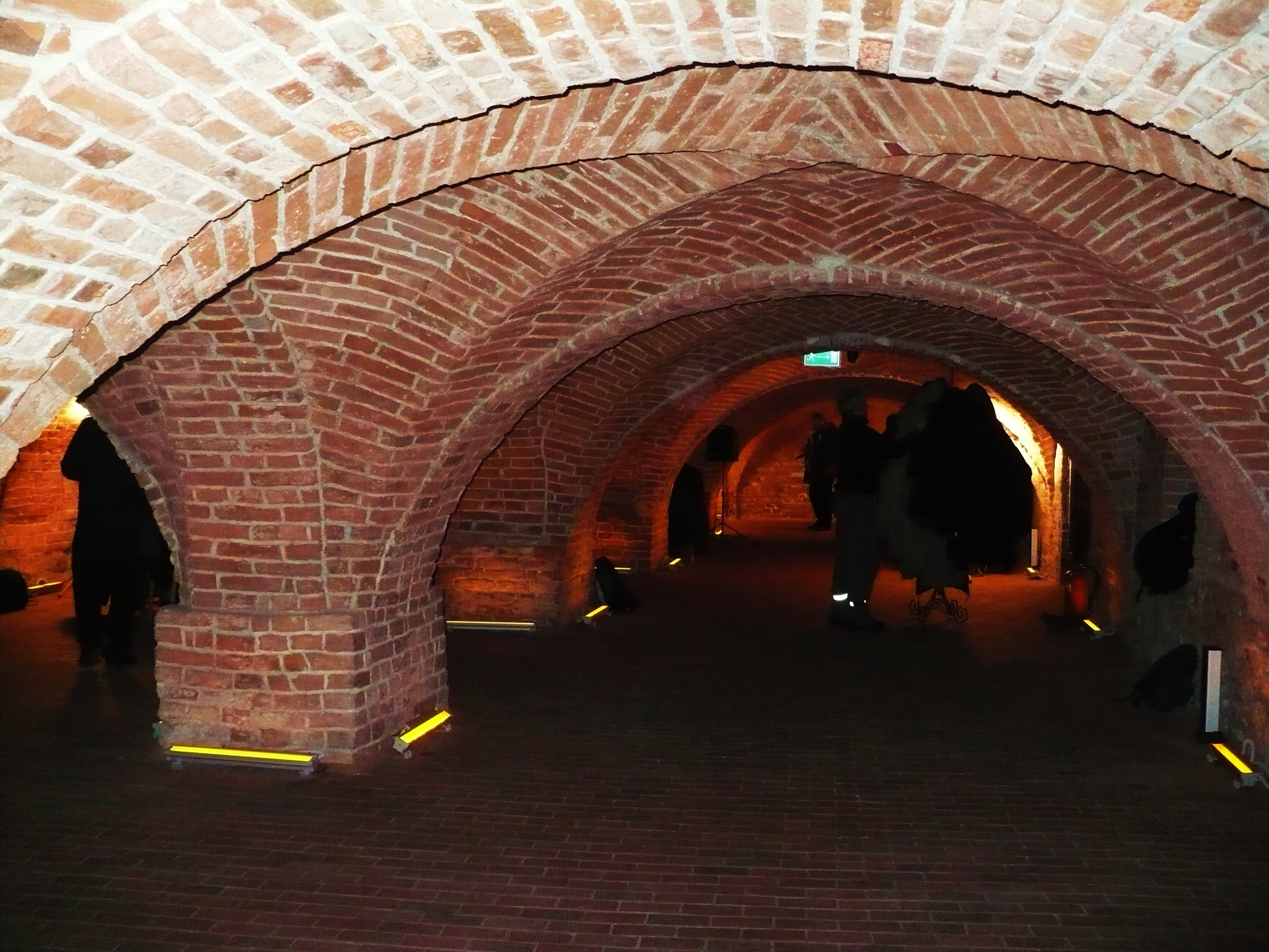 White Granarie in Bydgoszcz-gothic cellar